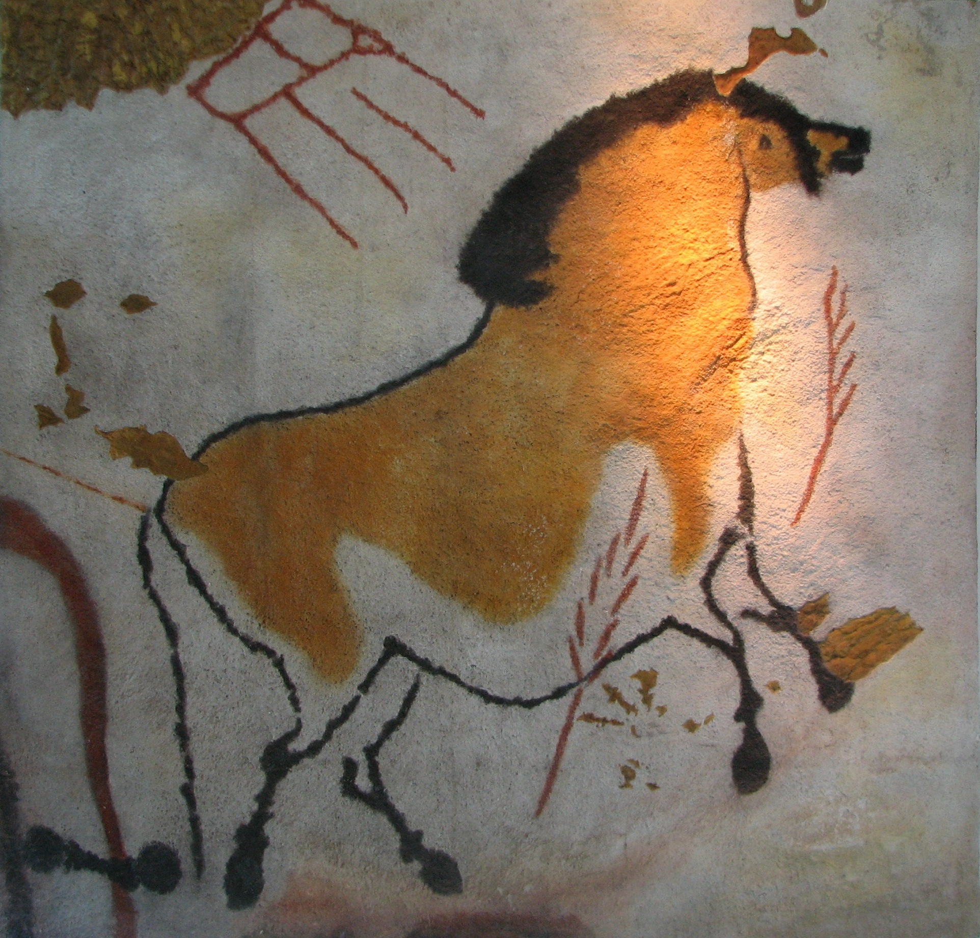 A horse from Lascaux. Replica in the Brno museum Anthropos.